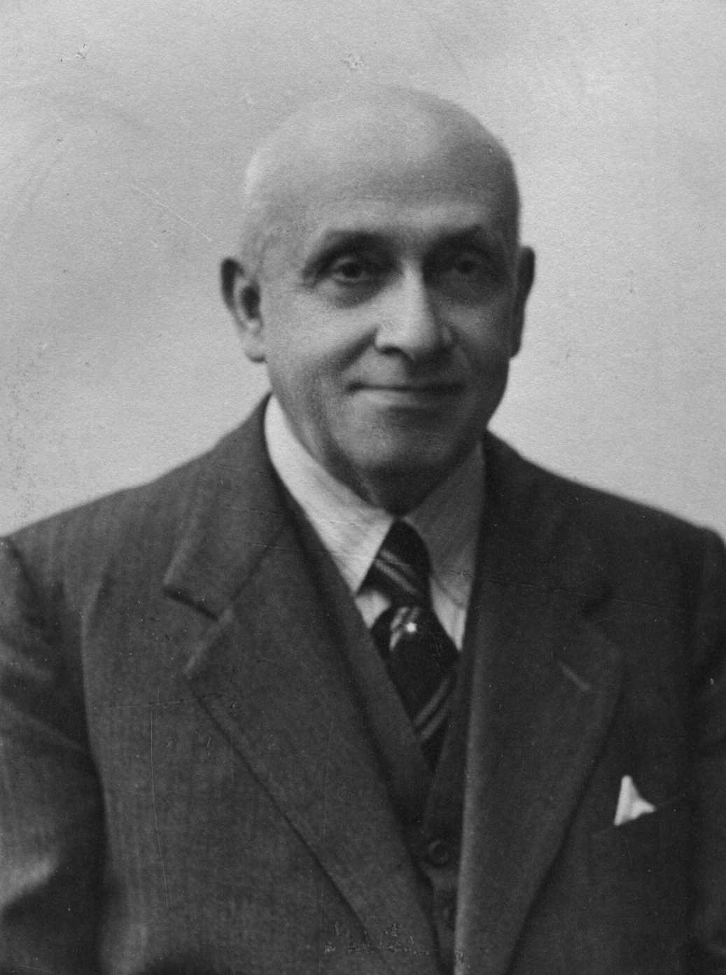 Ing. Nino Sacerdoti